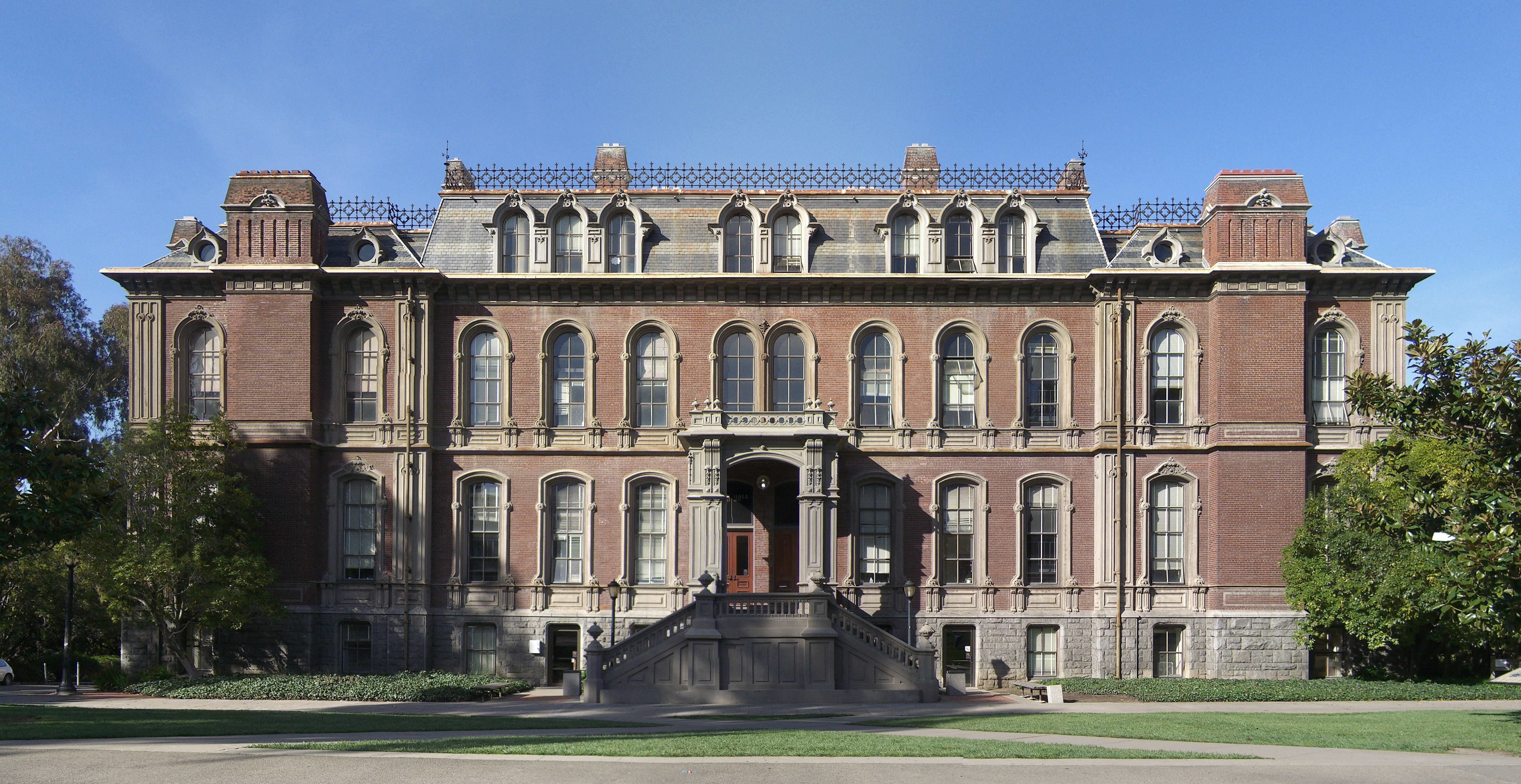 South Hall, University of California, Berkeley, housing the UC Berkeley School of Information. Taken on March 2, 2007.